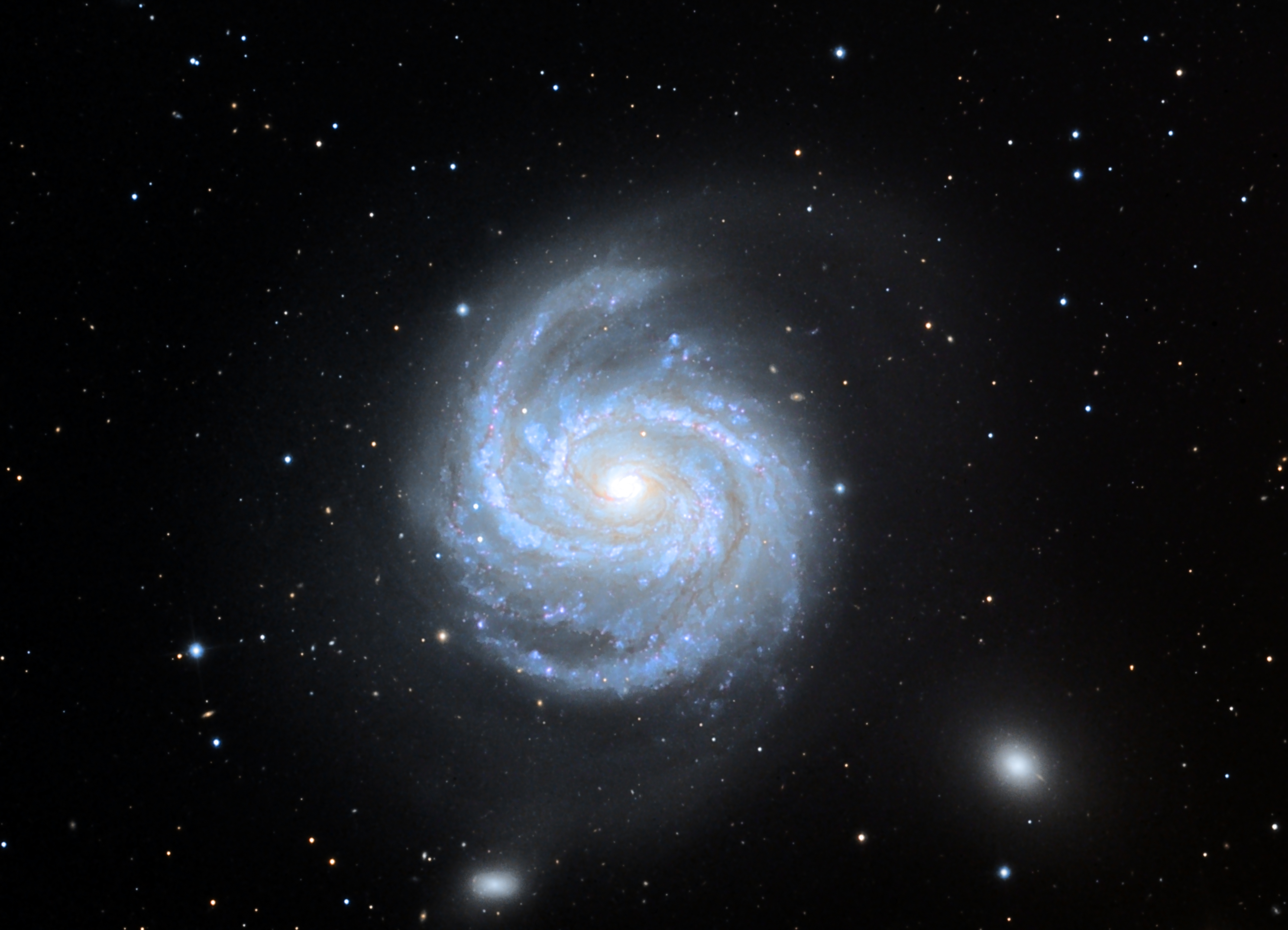 Messier 100 spiral galaxy in the Virgo Cluster, imaged using the 24 inch Schulman Foundation telescope on Mt. Lemmon, AZ. The satellite galaxies are NGC 4323 (bottom center) and NGC 4328 (bottom right)